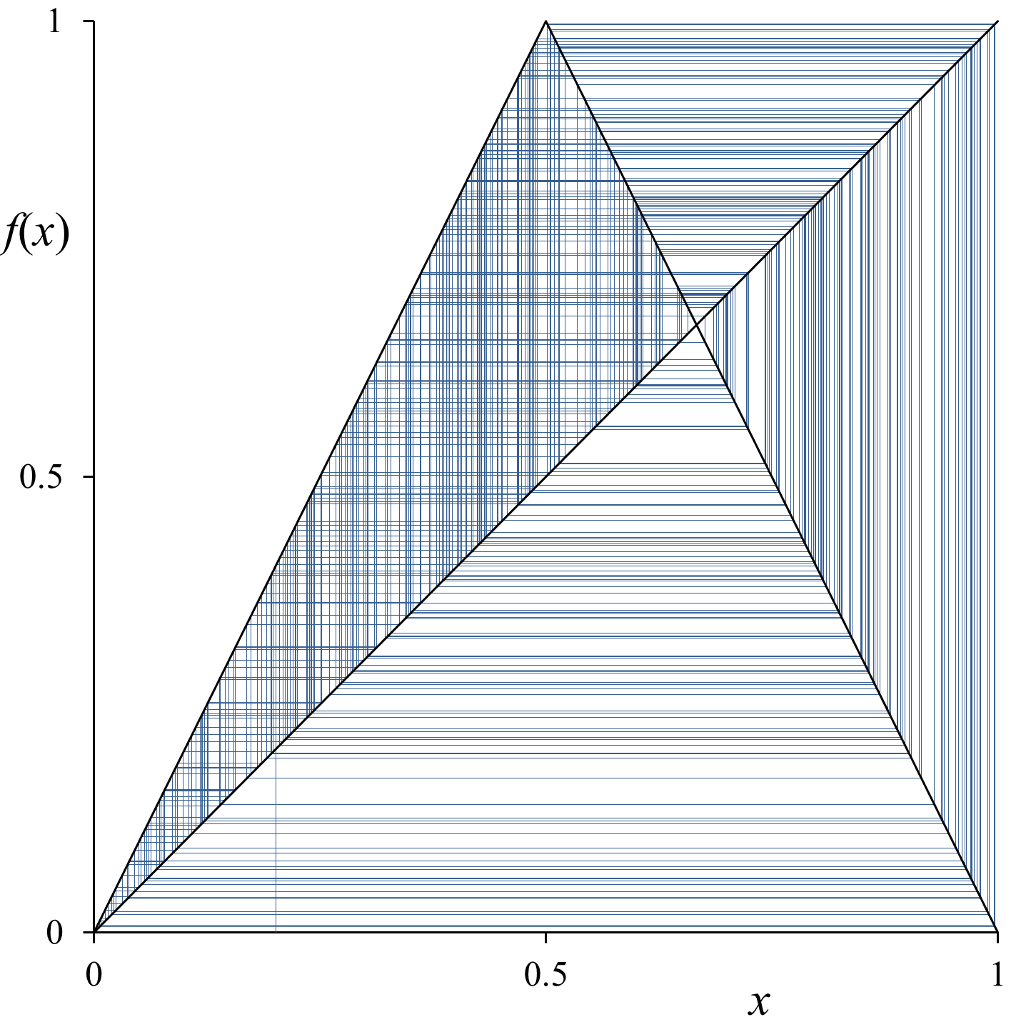 Tent map cobweb diagram, an example of parameter μ = 2. The initial value is 0.201804262215. The number of iteration is 300. Chaos appears on the diagram.